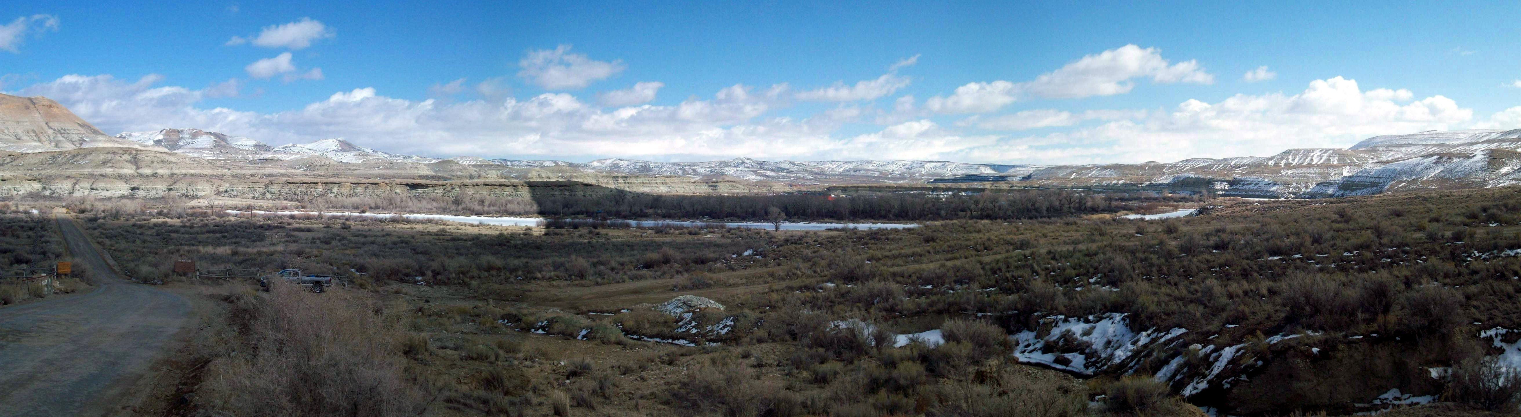 Scott's Bottom, from Green River, Wyoming. March 2008